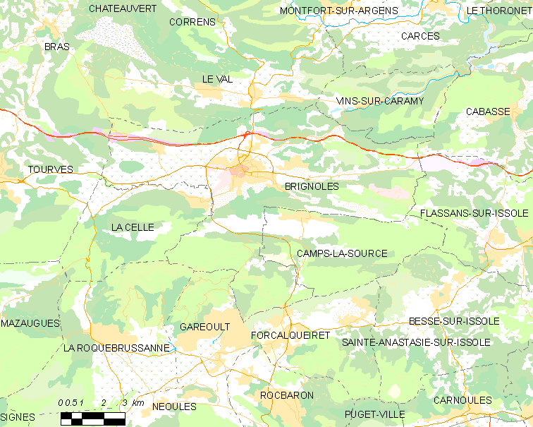 Map of French municipality Brignoles